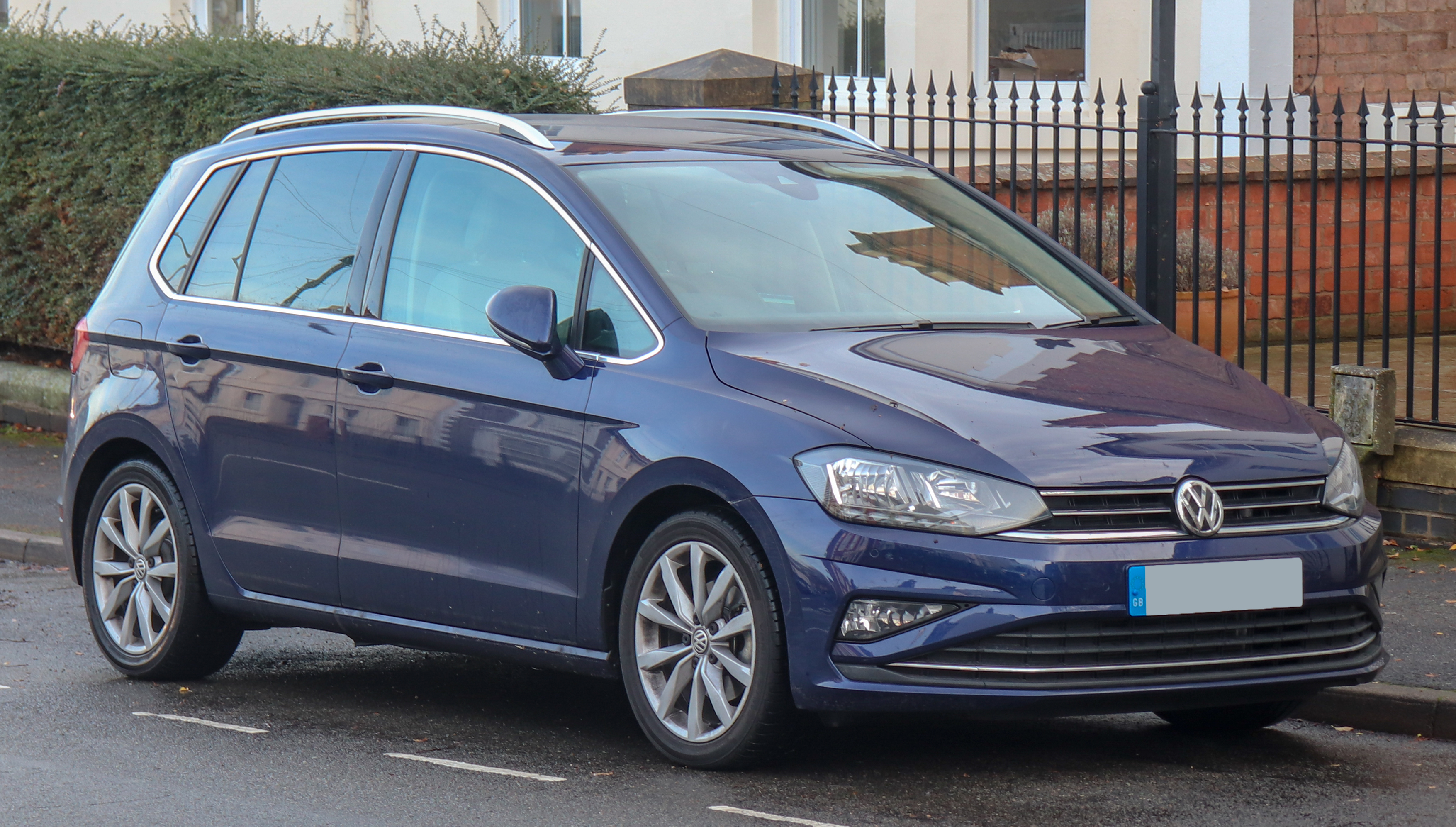 2018 Volkswagen Golf Sportsvan GT TSi BlueMotion 1.5 Front Taken in Leamington Spa